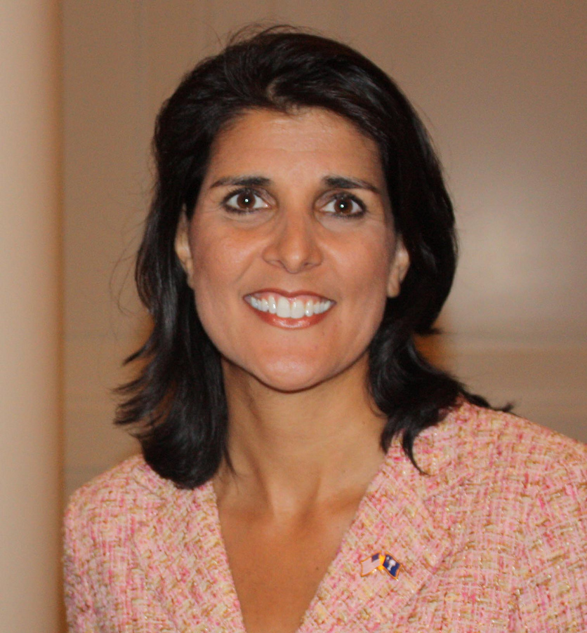 South Carolina Governor Nikki Haley